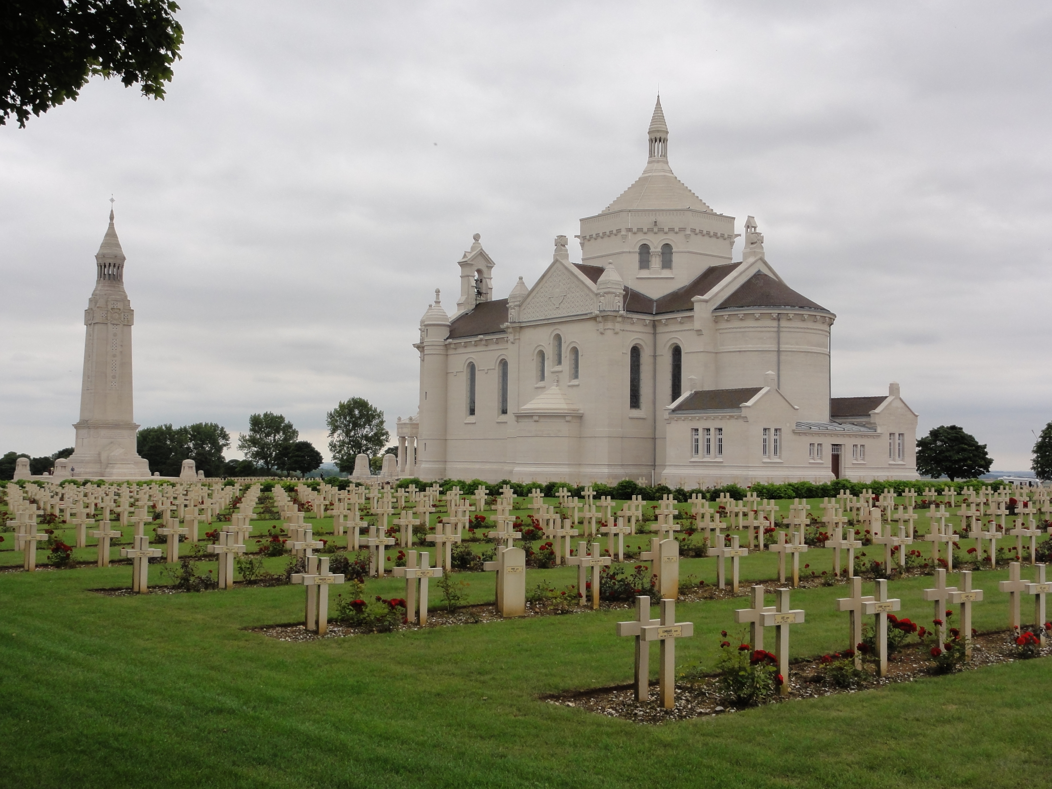 Nécropole Nationale de Lorette, French military cemetery with basilisk and lantern tower. Ablain-Saint-Nazaire, Pas-de-Calais, France